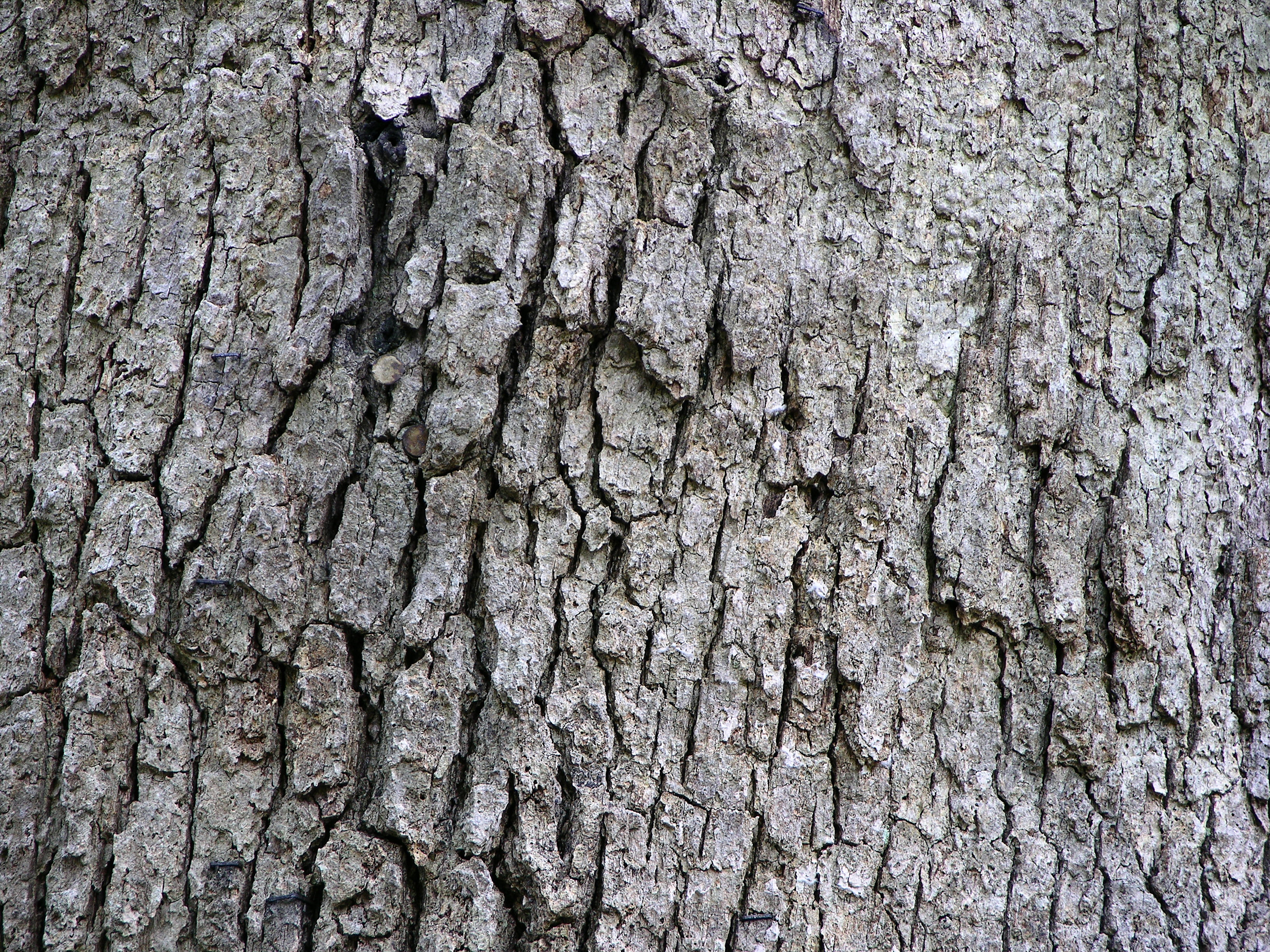 A photograph of the trunk of White Oak (Quercus alba) showing the tree's bark. Species identification performed by the Pennsylvania Department of Conservation and Natural Resources. Photo taken at the Ridley Creek State Park.